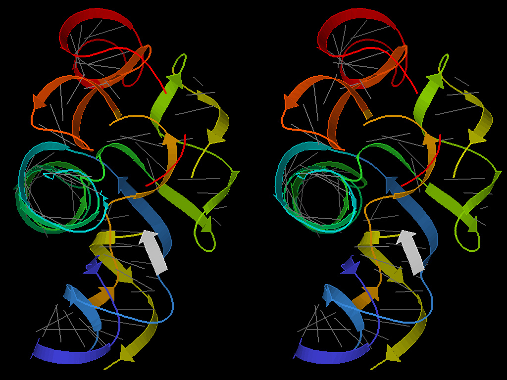 3D structure (in stereo) of Twort self-splicing group I intron RNA molecule (PDB file 1Y0Q); gray lines show base pairs; ribbon arrows show double-helical regions, colored blue to red from 5' to 3' end; white ribbon is short RNA product. Ribbons displayed in the Mage kinemage graphics program.